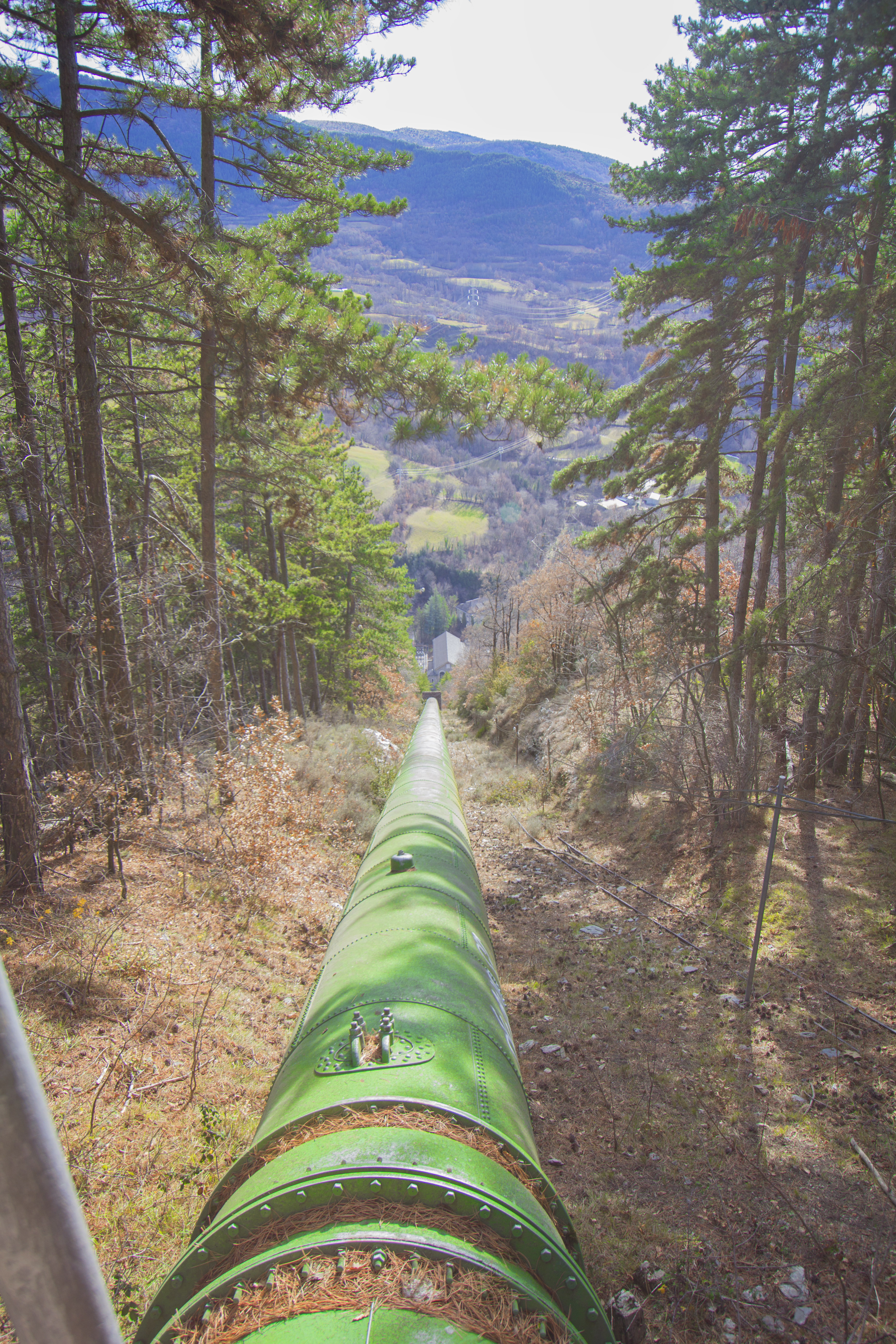 Molinos hydropower plant. Penstock. Torre de Capdella (Catalan Pyrenees)